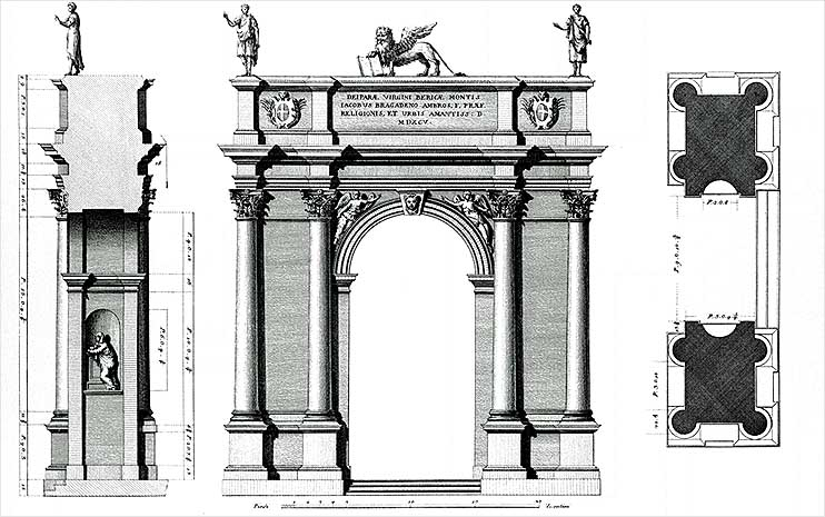 Arco delle Scalette in Vicenza. Probably designed by Andrea Palladio, 1576. Drawing by Ottavio Bertotti Scamozzi, 1776.